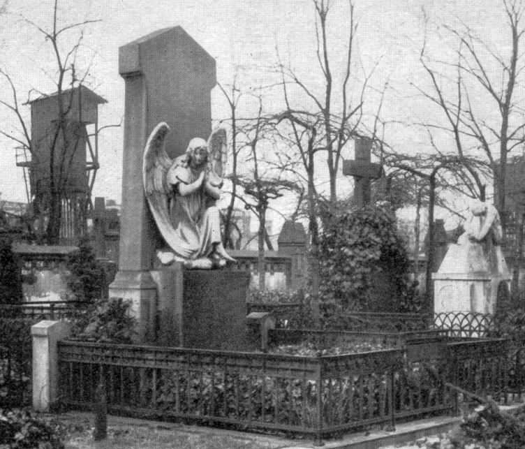 grave of Julius von Verdy du Vernois on Invalidenfriedhof cemetery in Berlin 1925, grave no longer exists